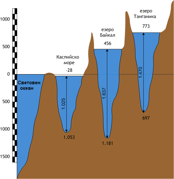 Scheme of three lakes of Earth - Caspian sea, Baikal and Tanganyika.